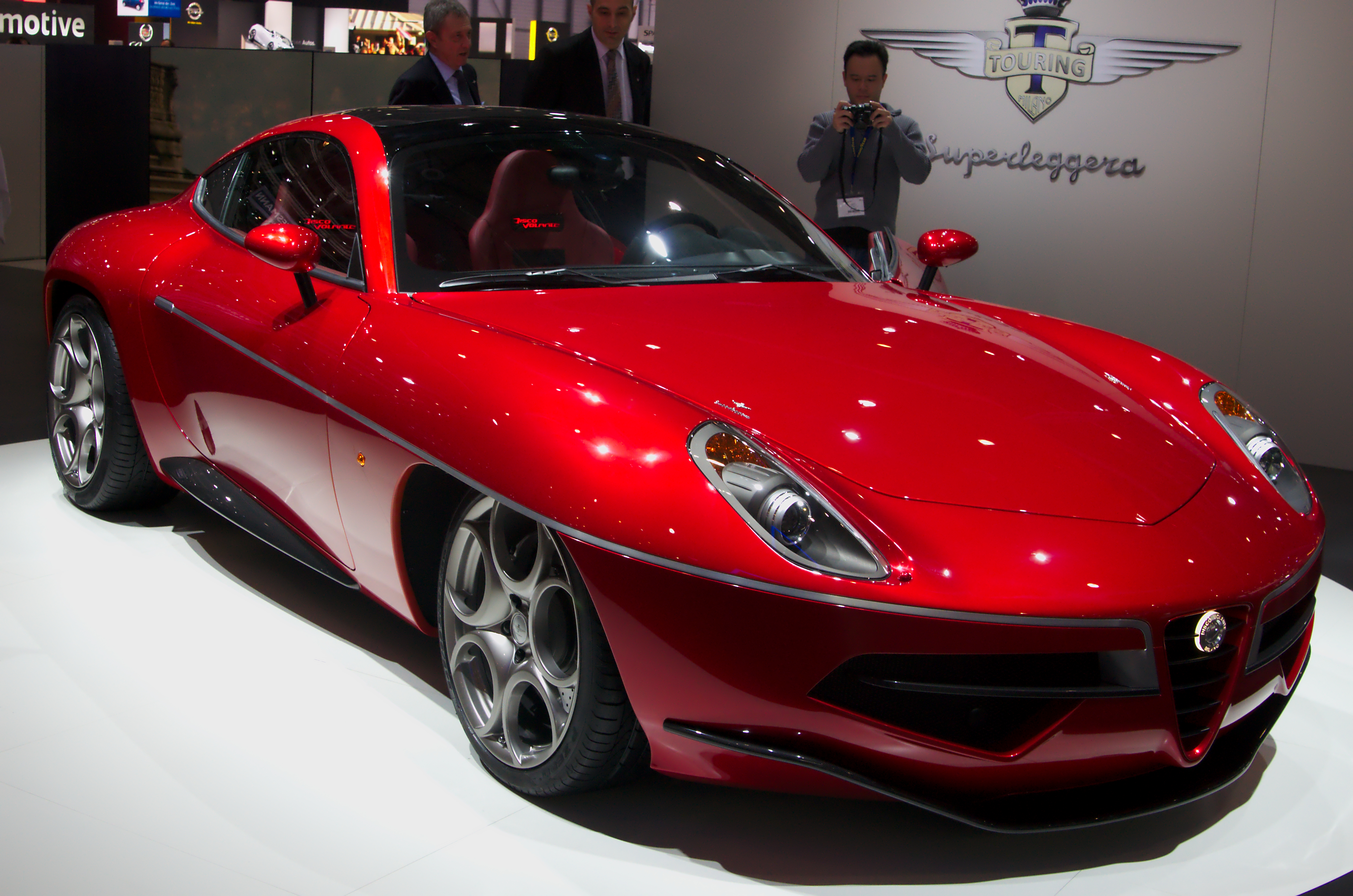 Geneva MotorShow 2013 - Touring Superleggera Disco Volante